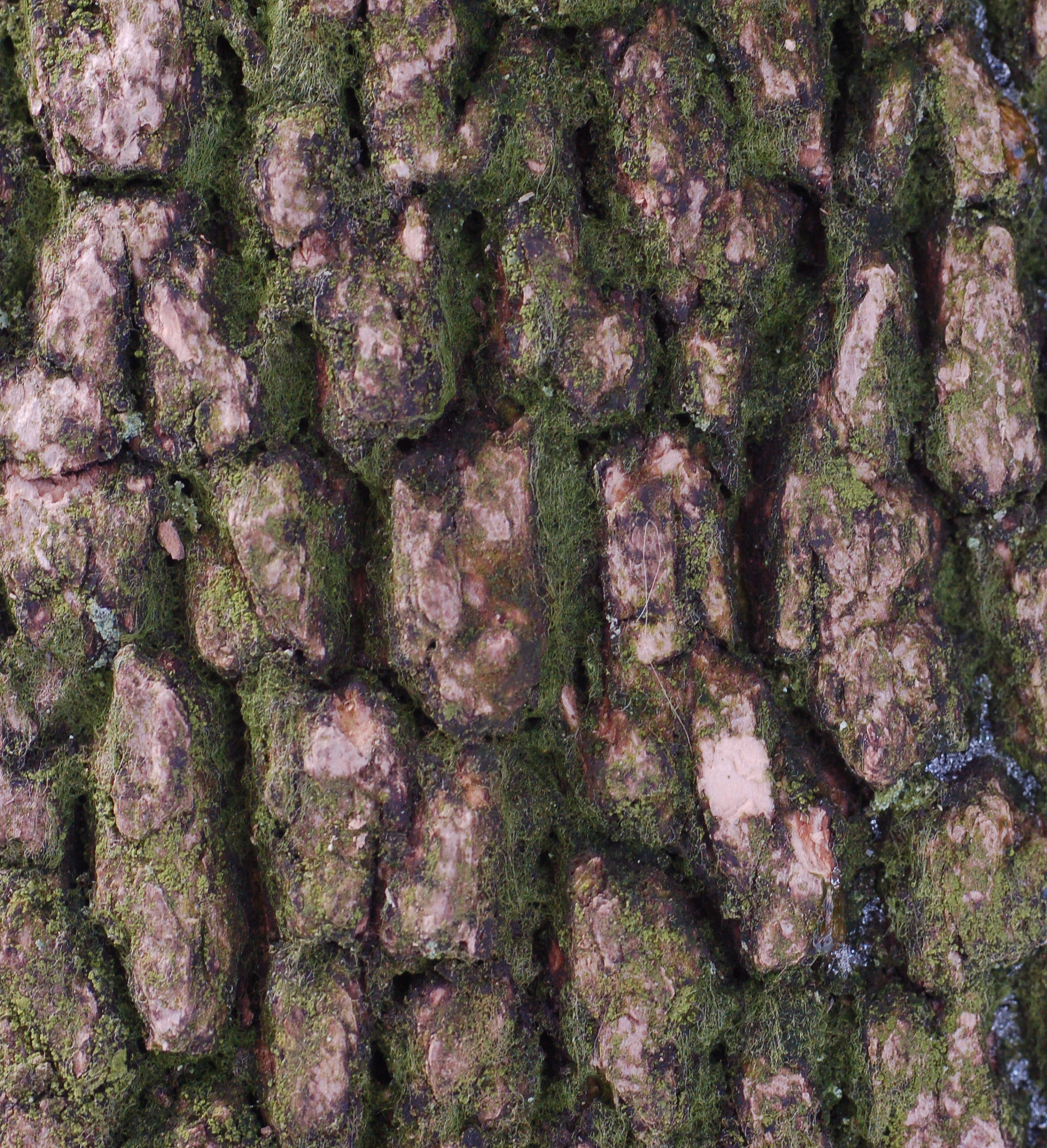 Photograph of the Boxwooden (Buxus sempervirens en var. arborescens). Photo taken at the Tyler Arboretum where it was identified.